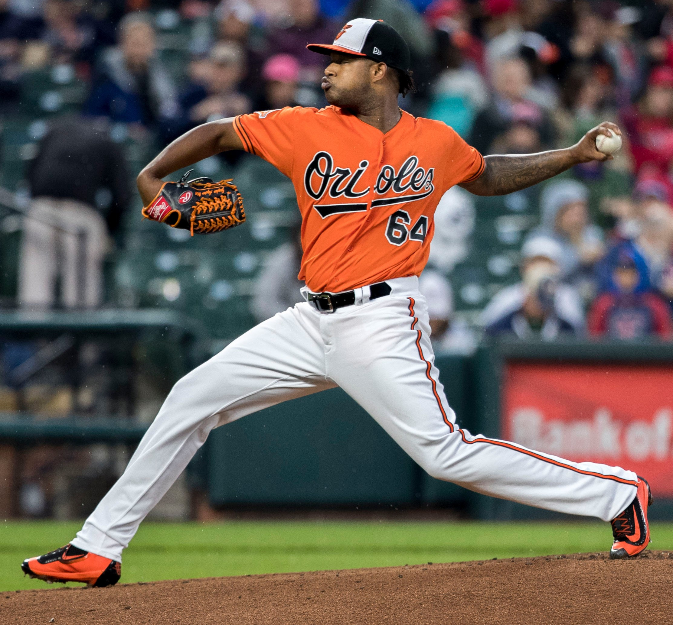 Jayson Aquino of the Baltimore Orioles pitches in a game against the Boston Red Sox at Oriole Park at Camden Yards on April 22, 2017 in Baltimore, Maryland.